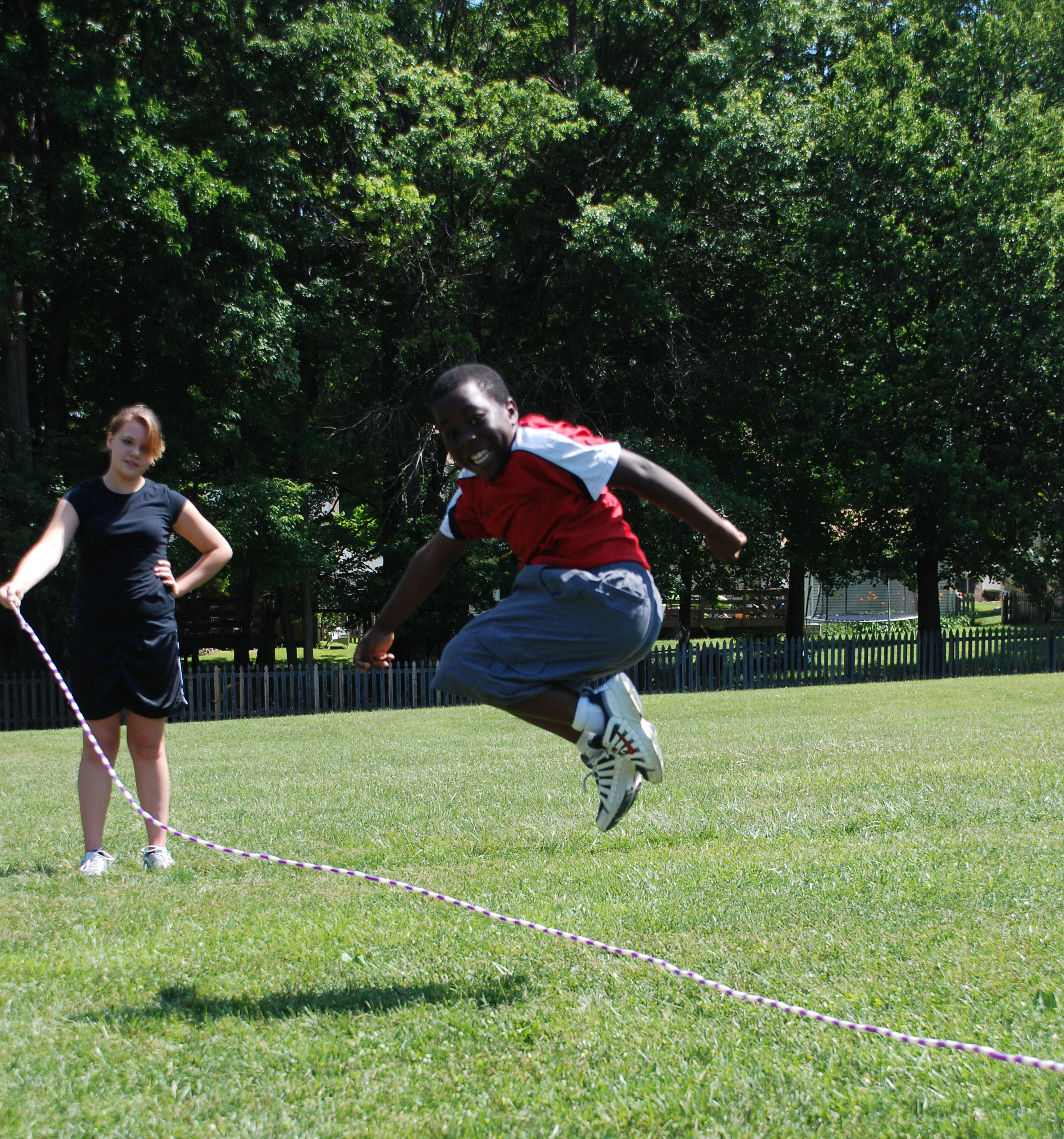 Day of sports and games at elementary school in Fairfax County, Virginia: Jump rope.